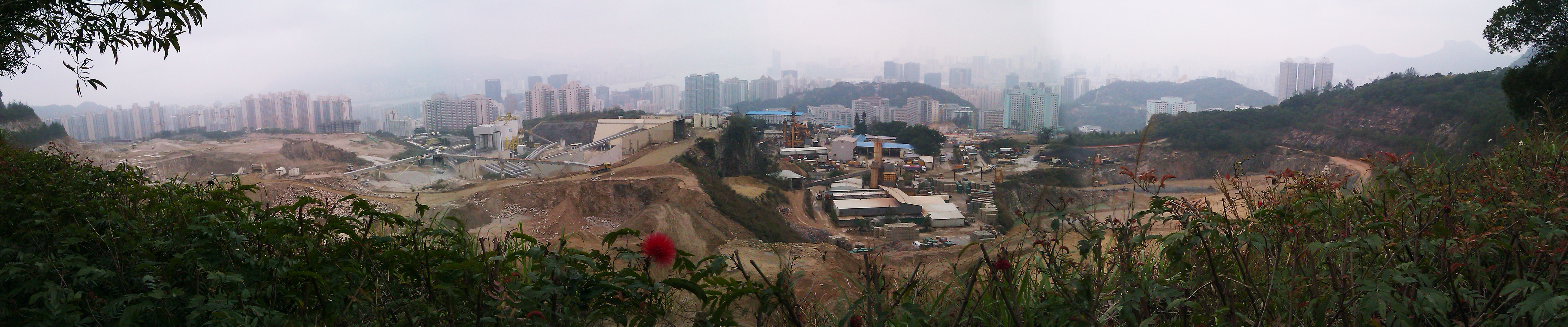 Panorama of Anderson Road Quarry, Hong Kong.